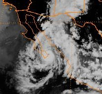 Hurricane Kiko of 1989.